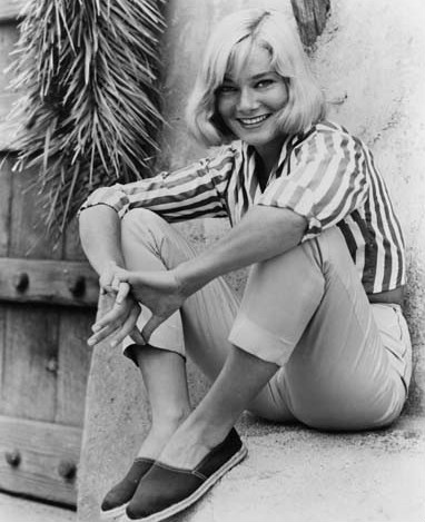 Photo of actress May Britt.